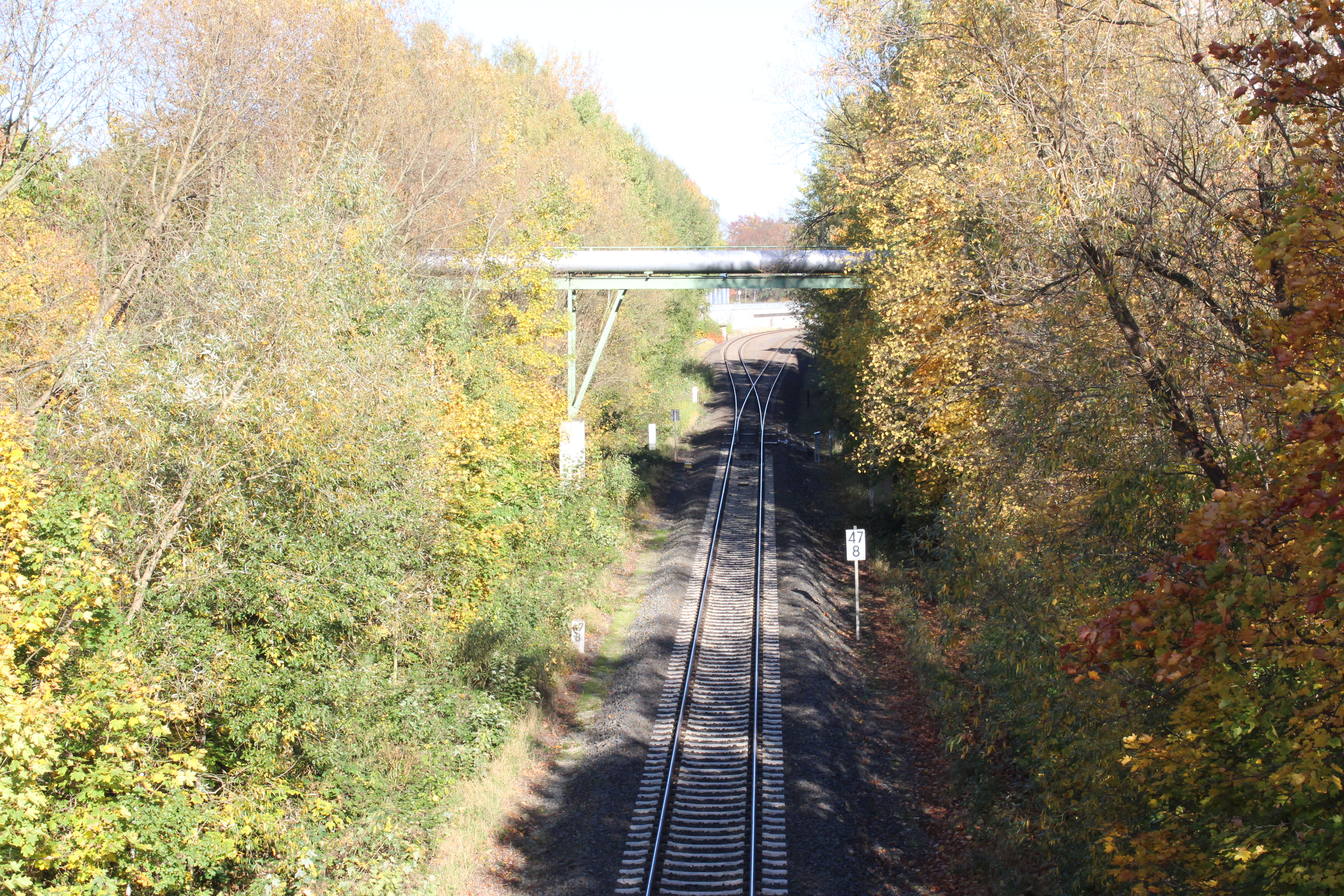 train station Hermsdorf-Klosterlausnitz, western side